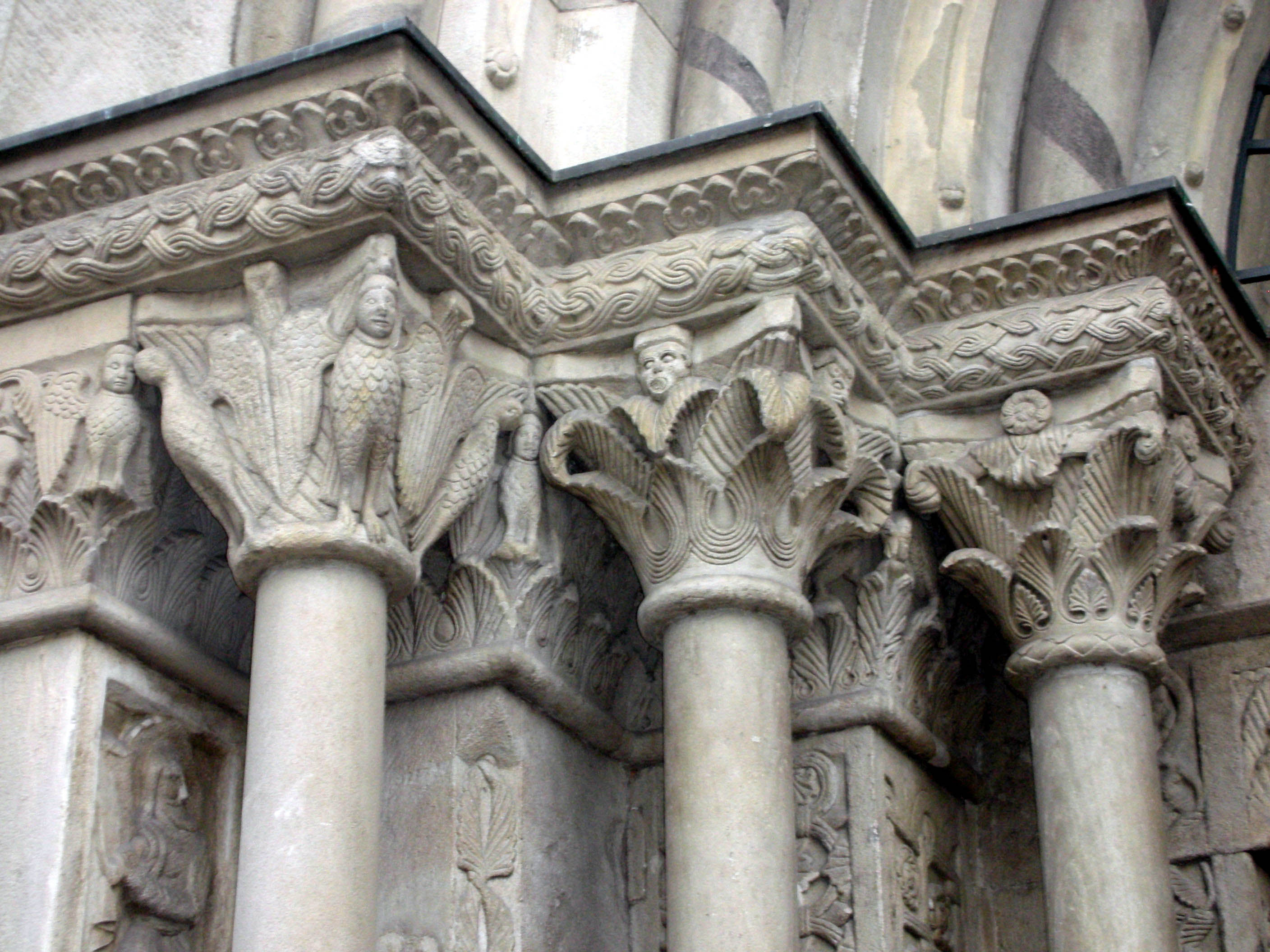 Photo taken with a Nikon Coolpix S6. Original image altered with photoshop Auto Levels (image balance) only. the photographer. Photo shows detail from the great south portal of the Grossmünster Church in Zurich. Typical of Romanesque architecture, note the medieval grotesques on the capital columns.